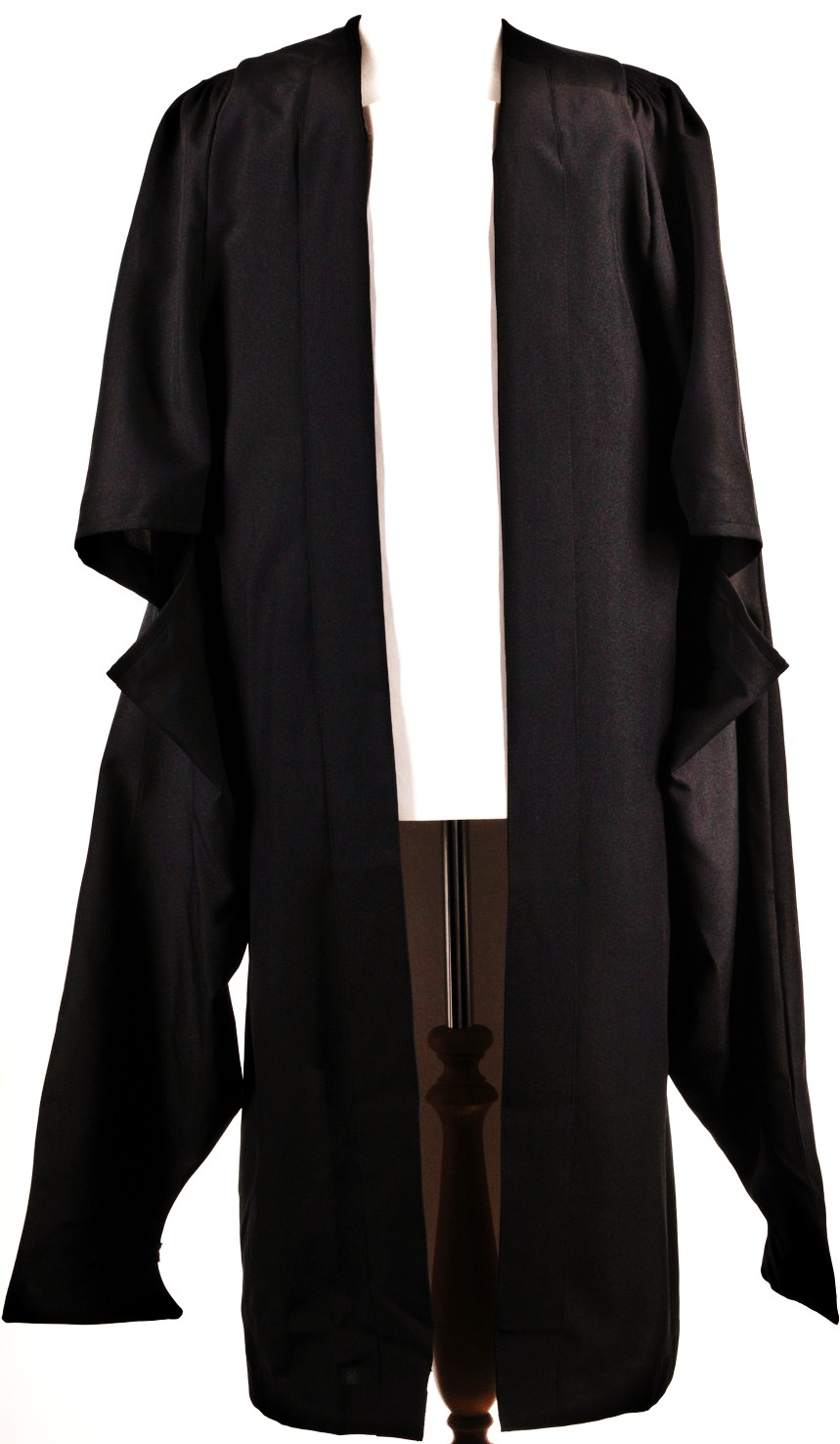 Black master's robe features sleeves with square-slit above the elbow.